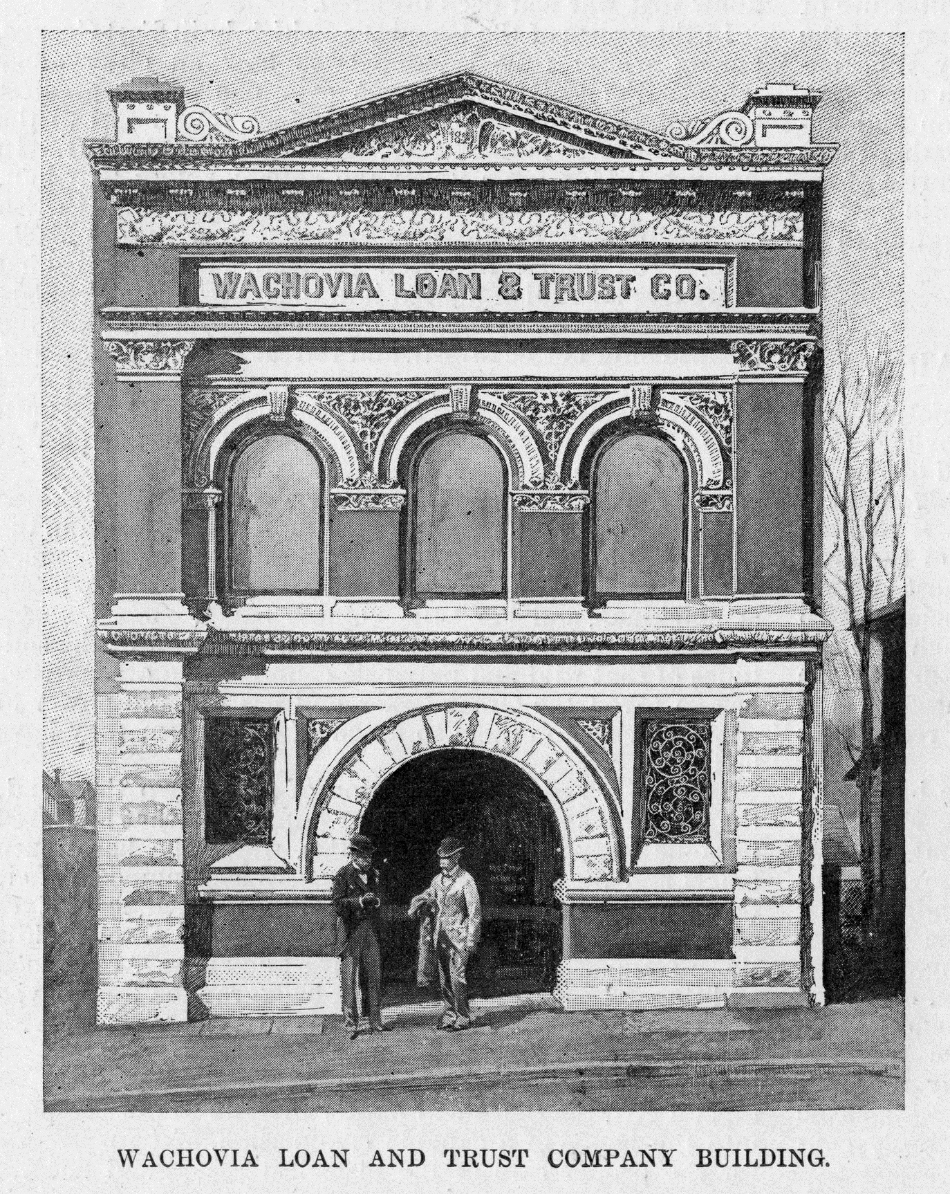 Drawing of the original Wachovia Loan And Trust Company Building in Winston Salem, North Carolina. The unmodified version of this file can be found here